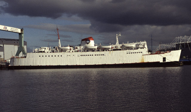 The Tuxedo Royale floating nightclub (the former car ferry TSS Dover), permanently moored in Middlesbrough Dock, England, beside Middlesbrough FC's Riverside Stadium.